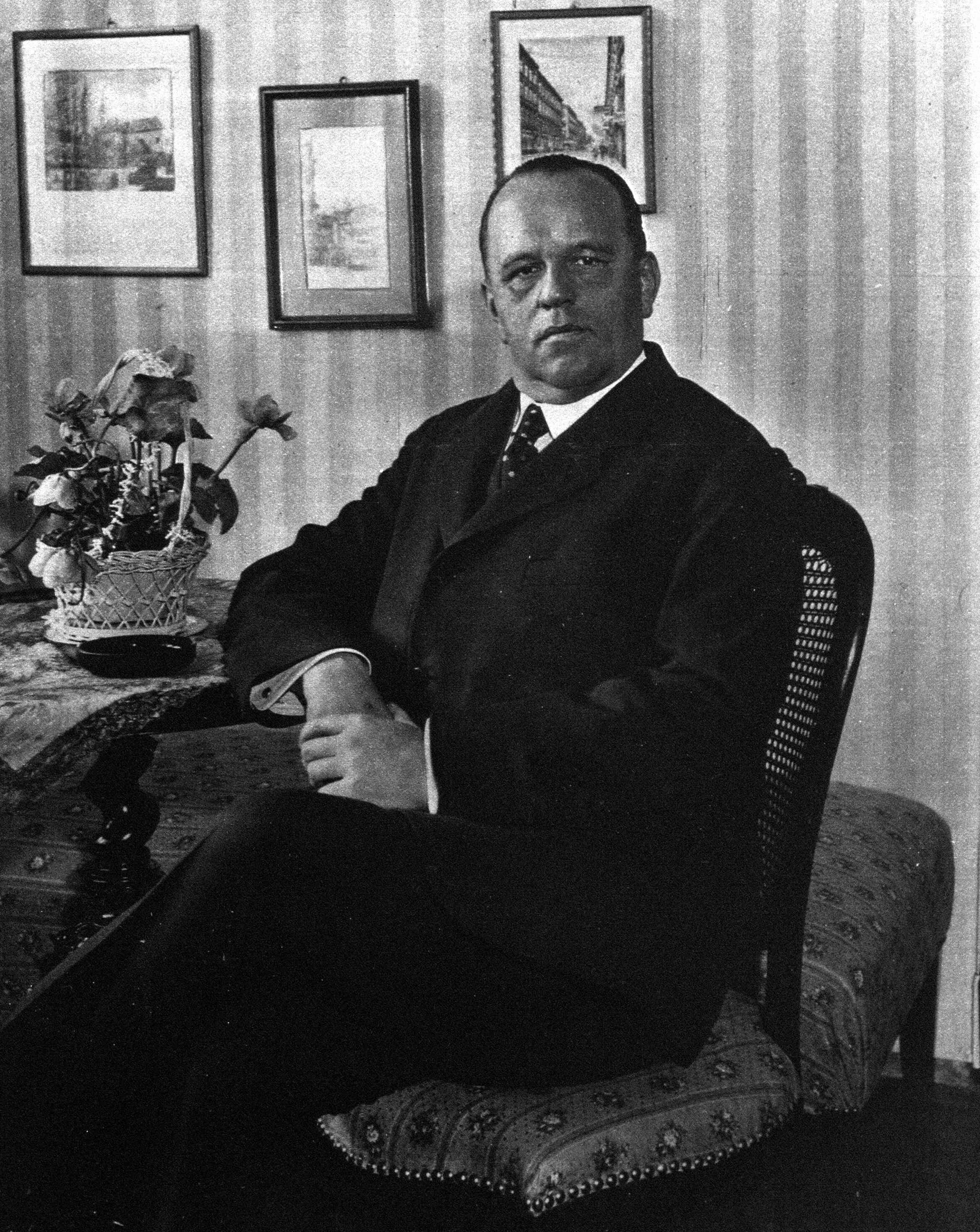 Anton Wildgans (1881–1932) Austrian poet and playwright; photo from 1932